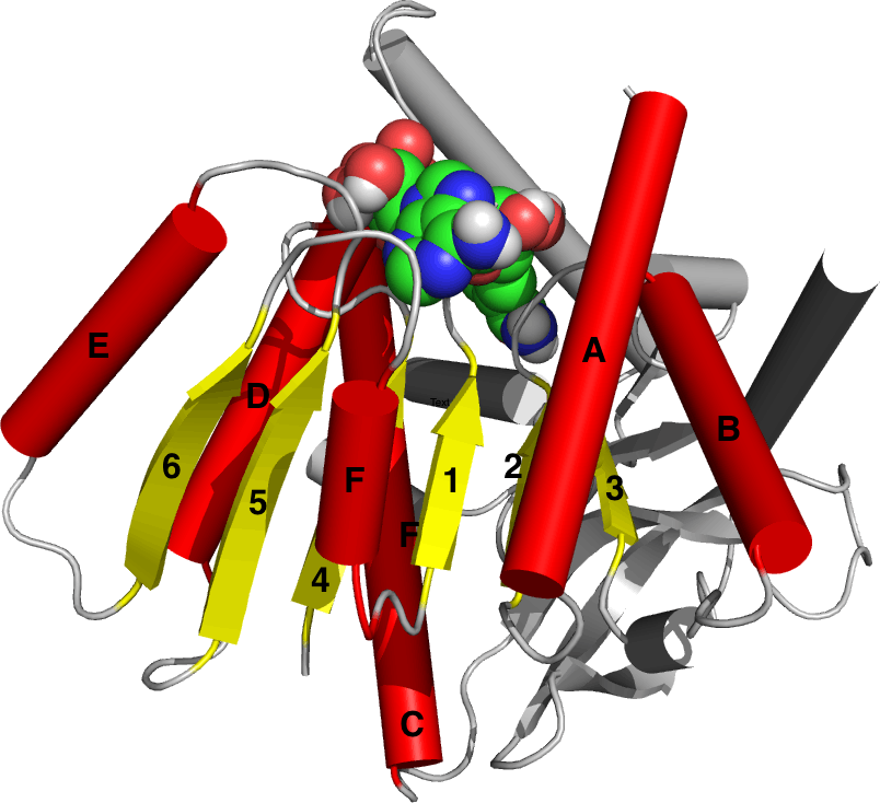 Cartoon diagram highlighting Rossmann fold (sheets yellow, helices red) within E. coli malate dehydrogenase derived from the 5KKA PDB structure. PyMOL commands for coloring: color yellow, resi 2-6+28-33+53-58+72-75+113-116+143-145 color red, resi 10-24+38-48+224-243+63-69+91-109+120-135